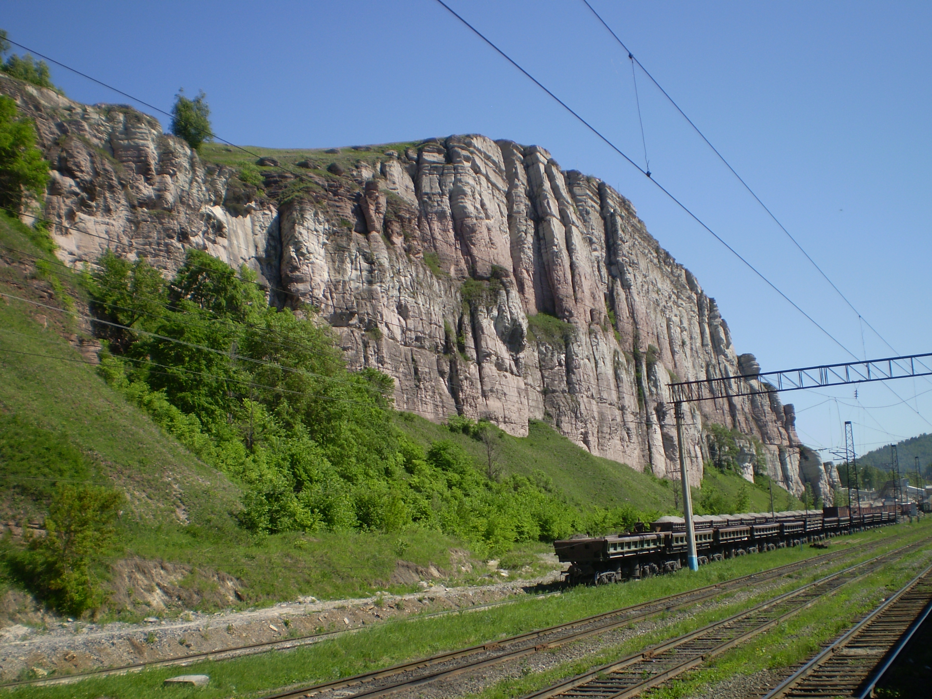 Mountain near Asha city, Chelyabinsk region